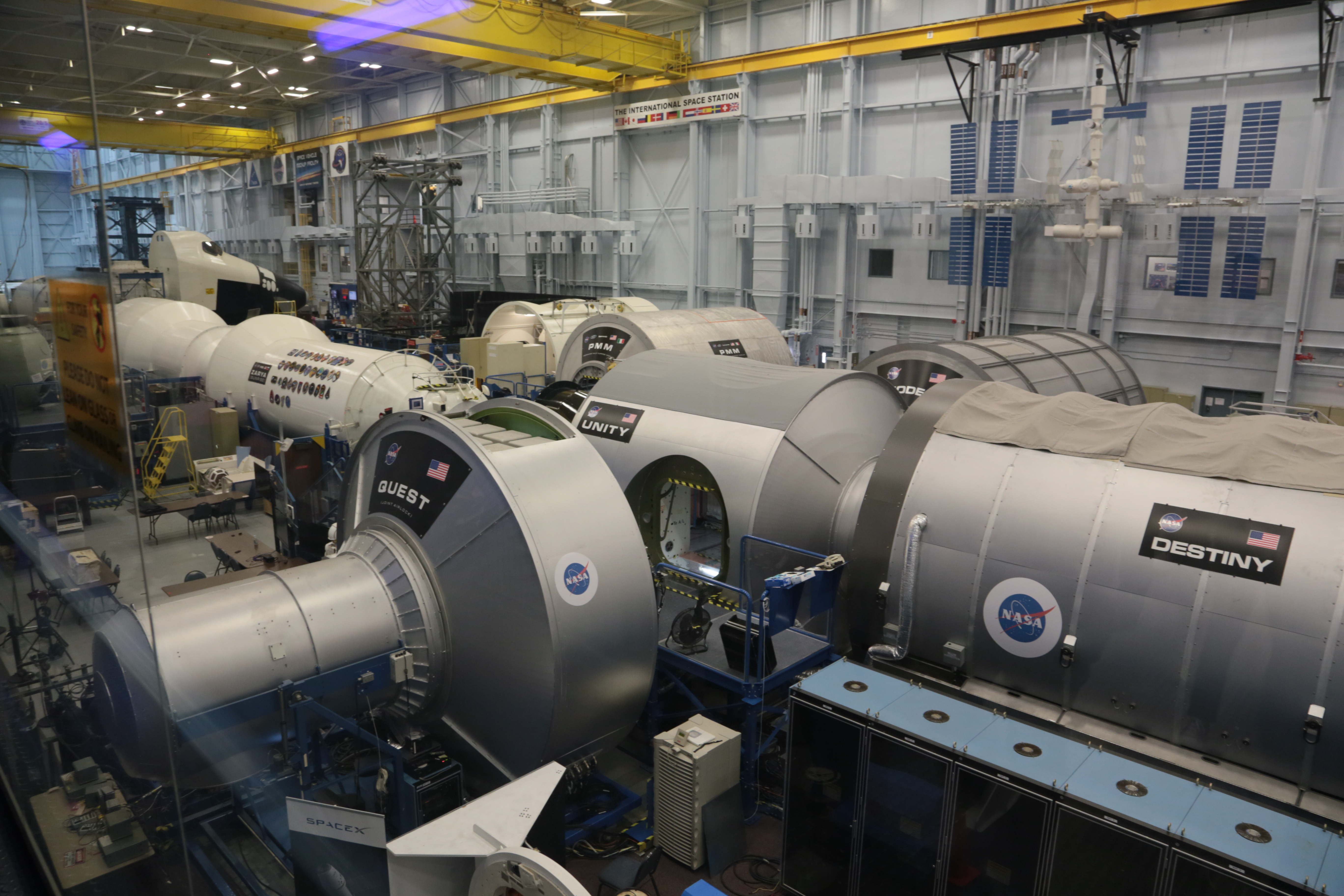 Space Centre Houston, Lyndon B. Johnson Space Center